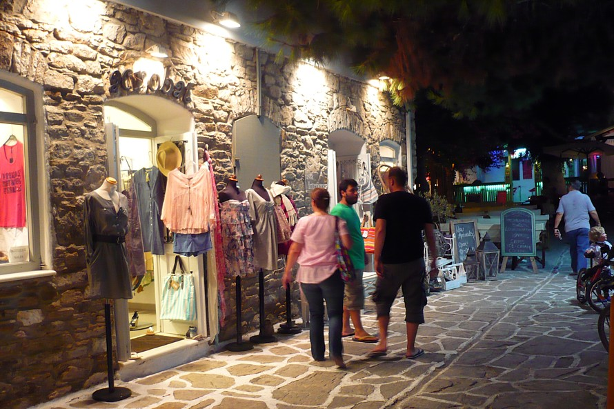 Antiparos night stores